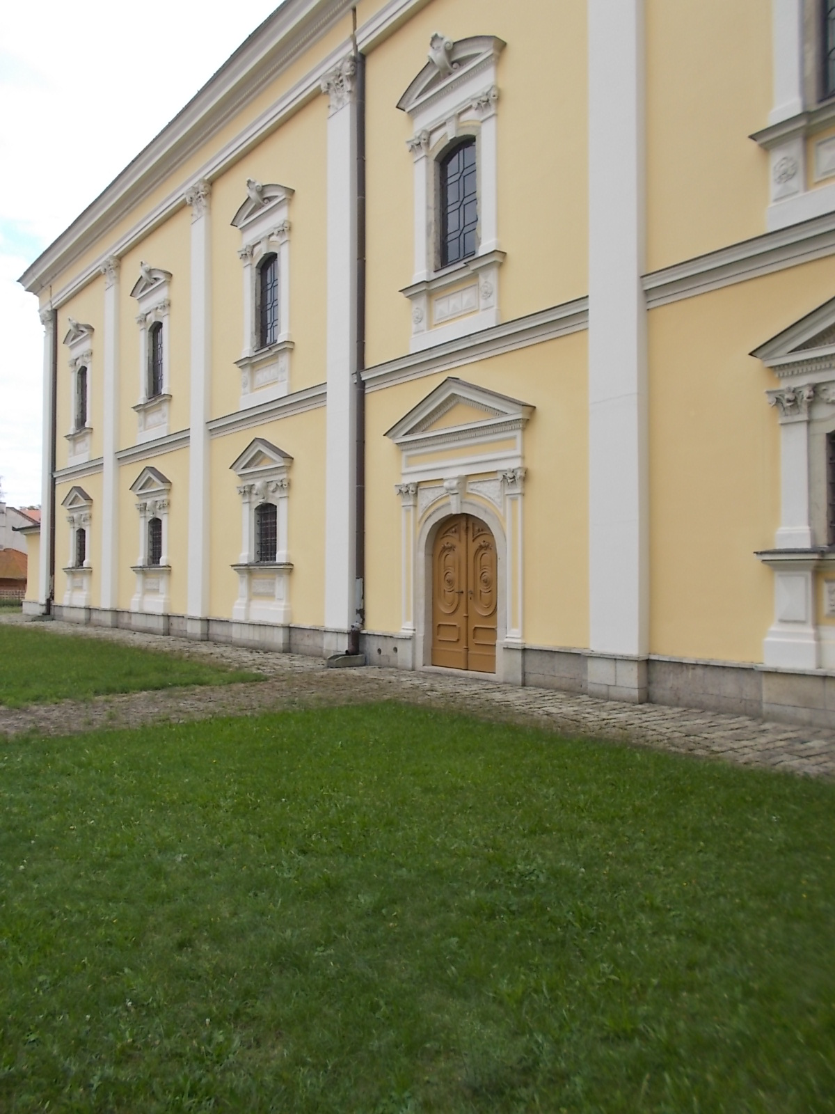 Lutheran Great Church, Baroque origin, 1784-1786. Reconstructed in eclectic neo-baroque style between 1850-1860, 1885-1886 and 1936. - Luther Square, Nyíregyháza, Szabolcs-Szatmár-Bereg County, Hungary.